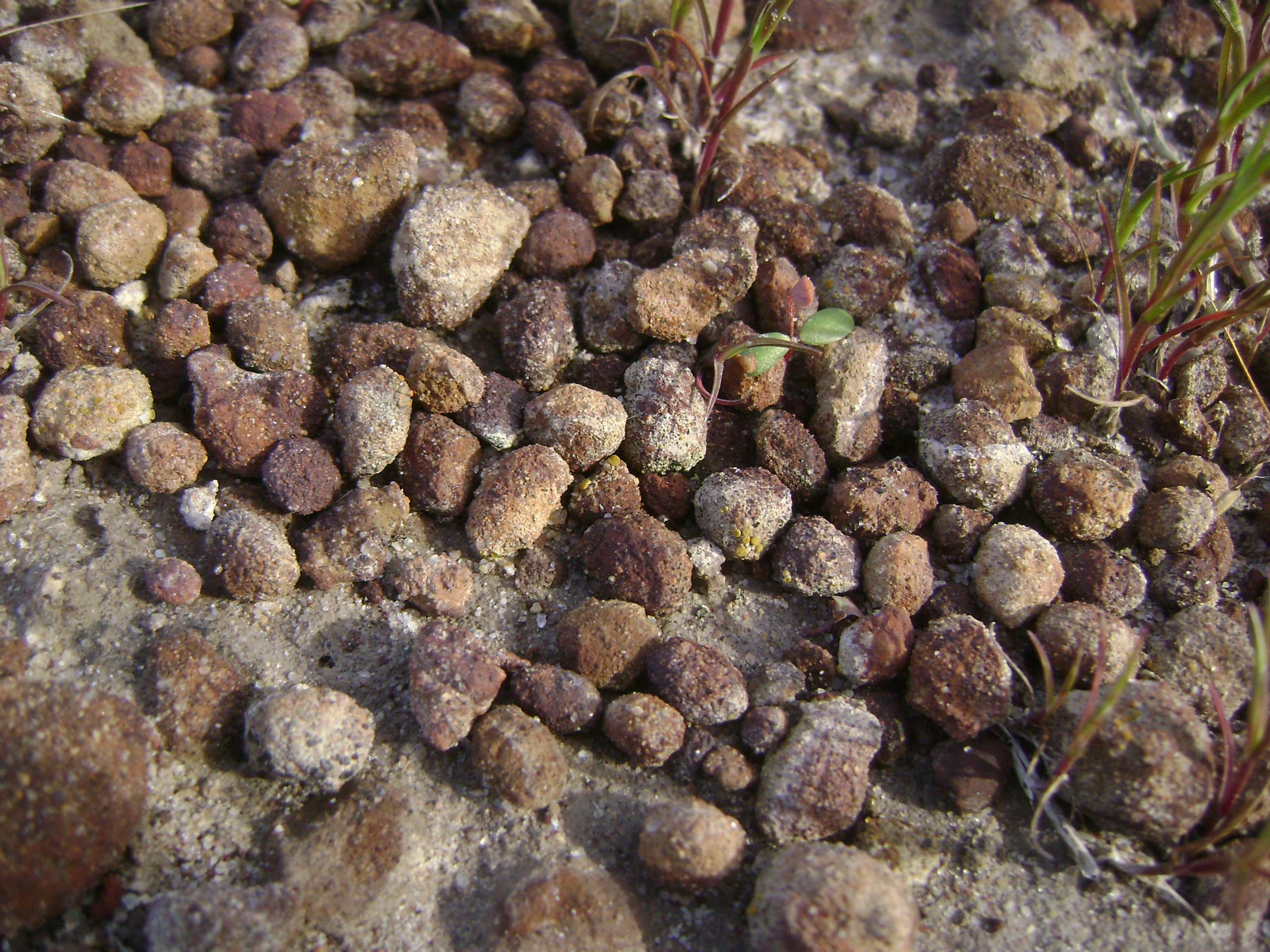 Example of naturally formed iron pisolites.